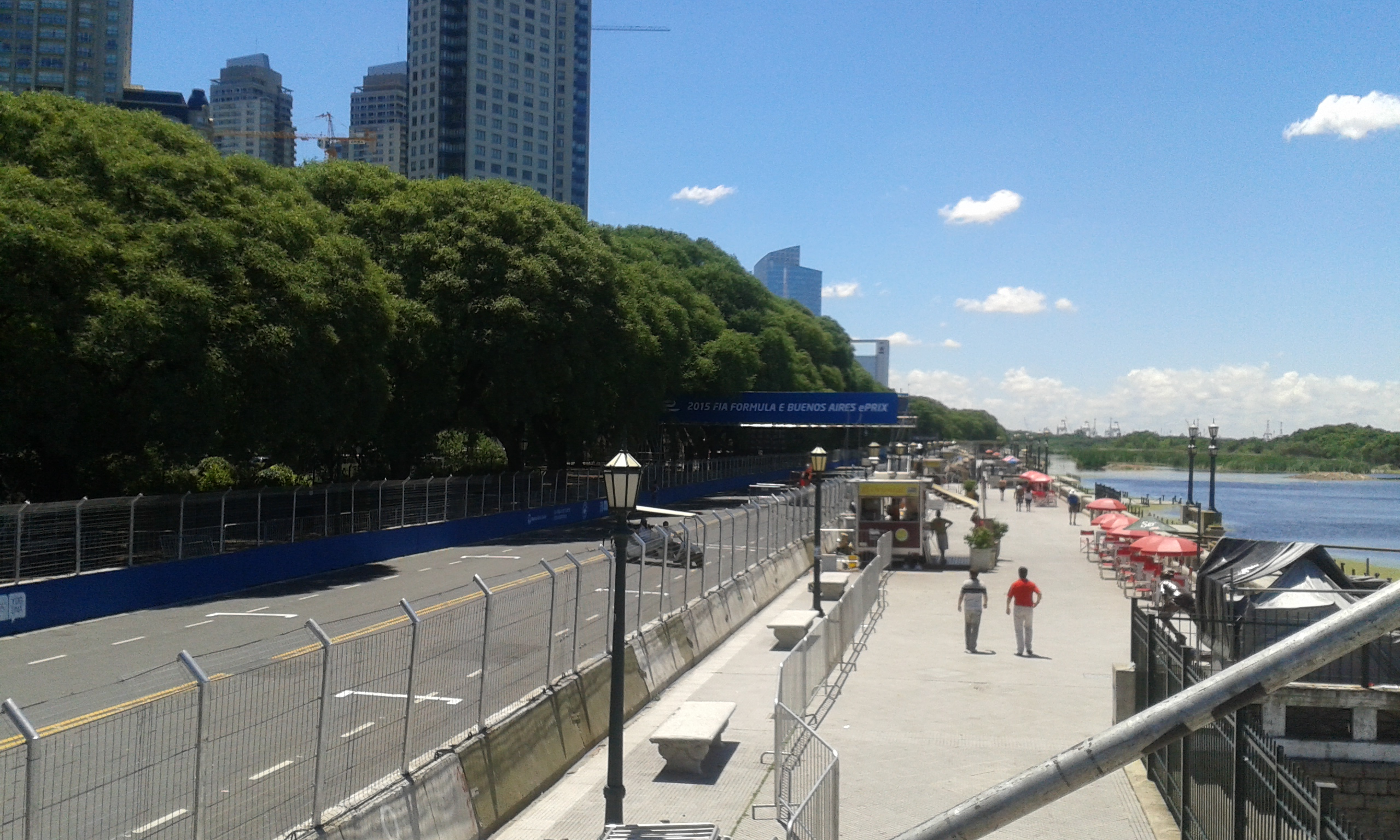 Starting grid and start point, long shot.